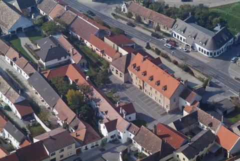 Purbach, Austria, aerialphotography